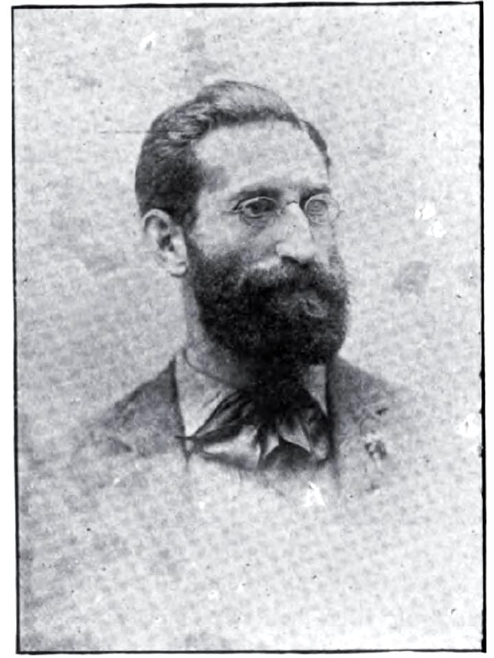 Chicago Herald music critic in 1891, Harry Falkenau.